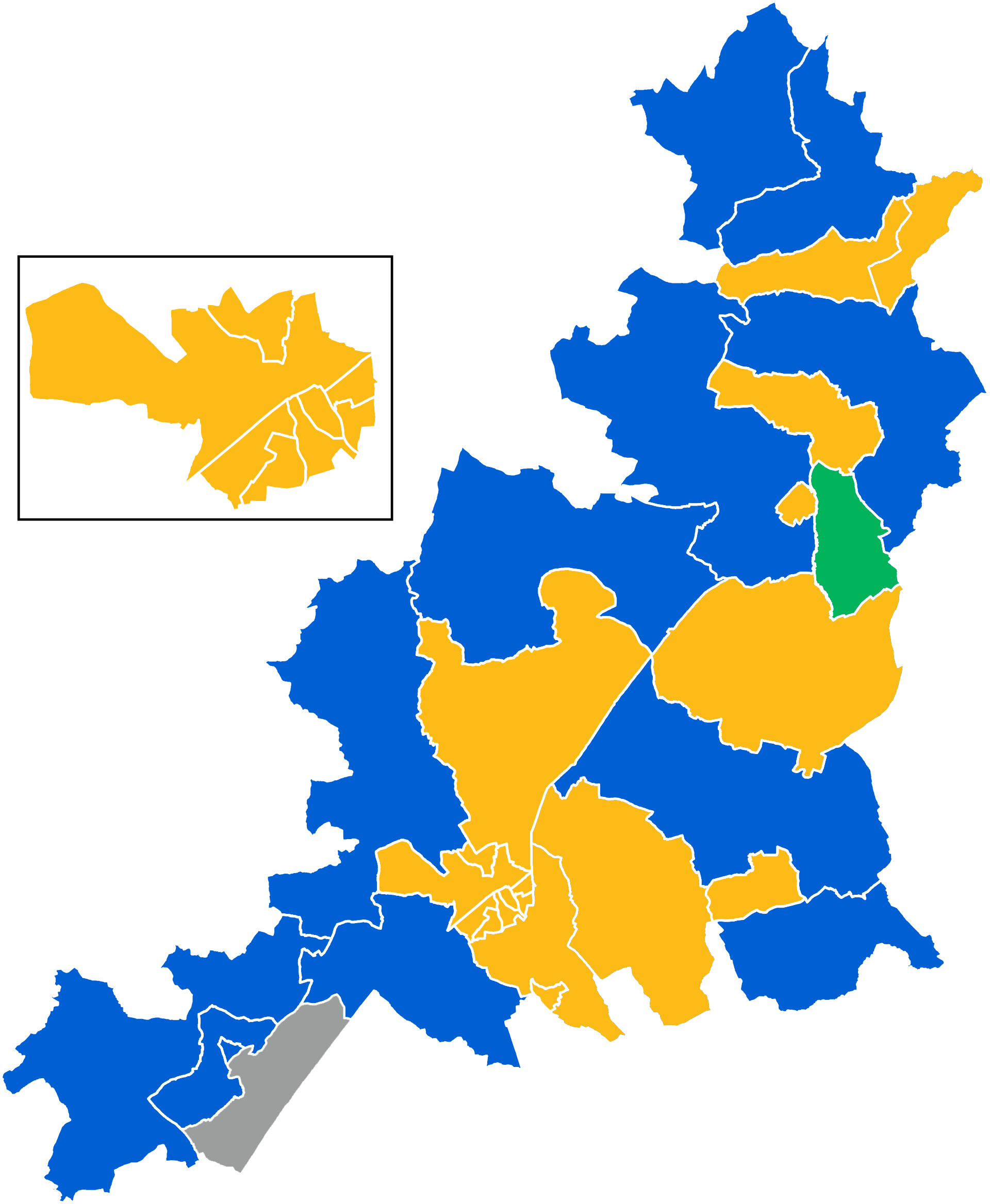 Cotswold District Council ward control 2019